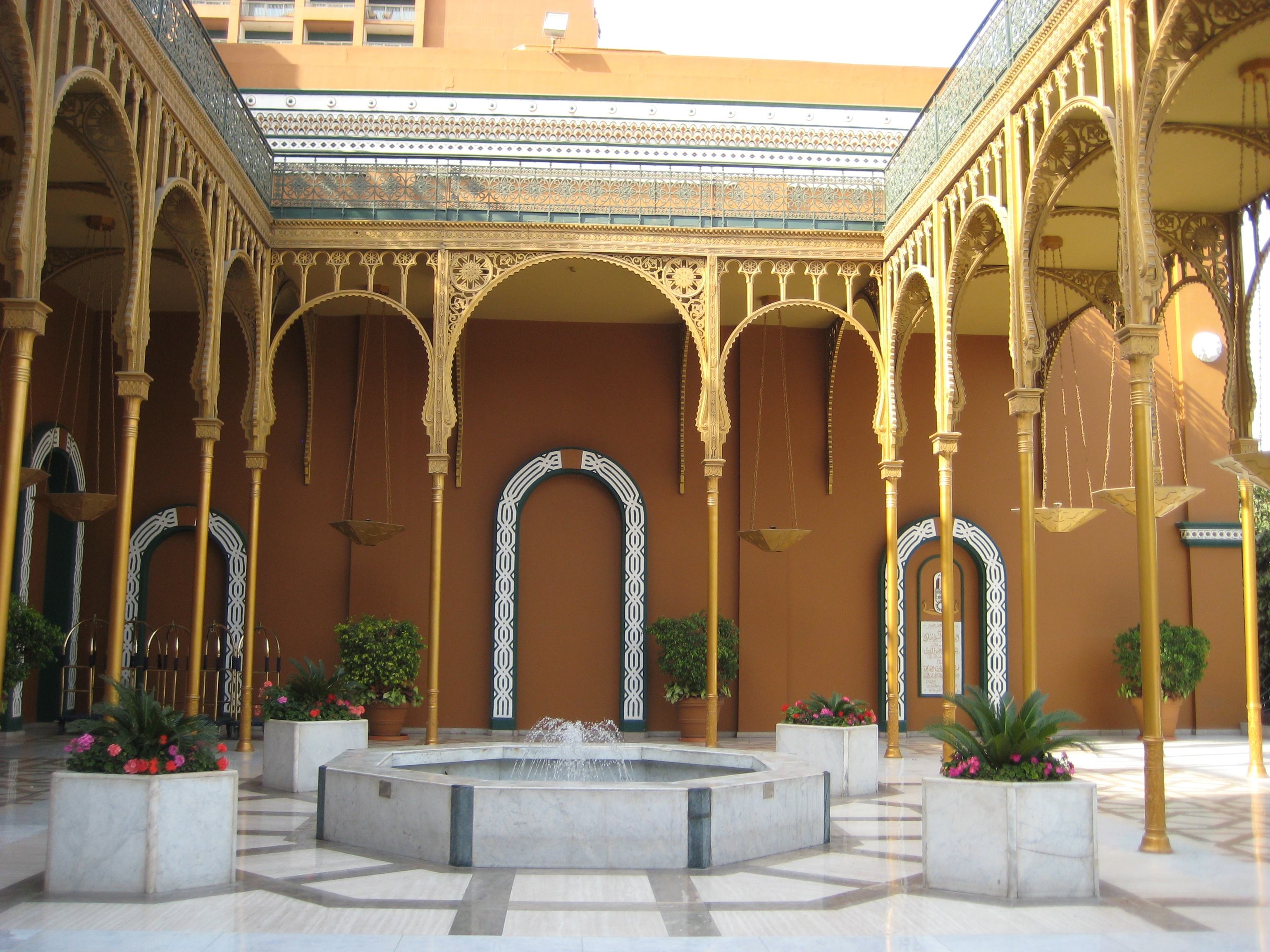 Cairo Marriott Hotel - Zamalek